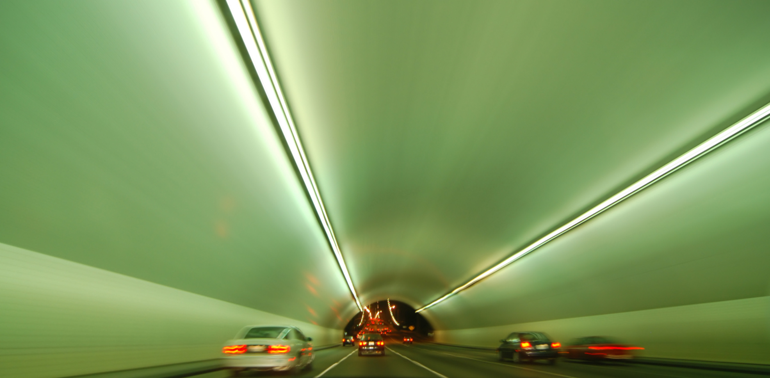 Inside the tunnel San Francisco-Oakland Bay Bridge through Yerba Buena Island, California, USA